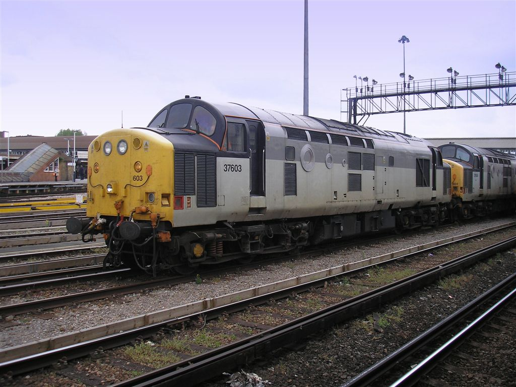 At Clapham Junction. These engines carry the circular logo of EPS (European Passenger Services) and used to be coupled between two match trucks with Scharfenberg (Eurostar) couplings on their outer ends. The pair used to sit here at Clapham Junction on standby to haul a "dead" Eurostar to their North Pole depot in emergency.